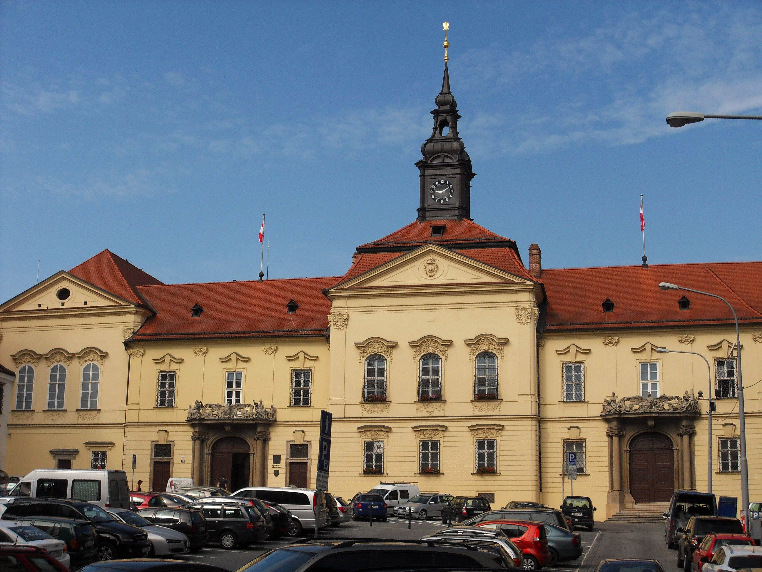 Nová radnice (New town hall), Rooseveltova street, Brno, Czech Republic